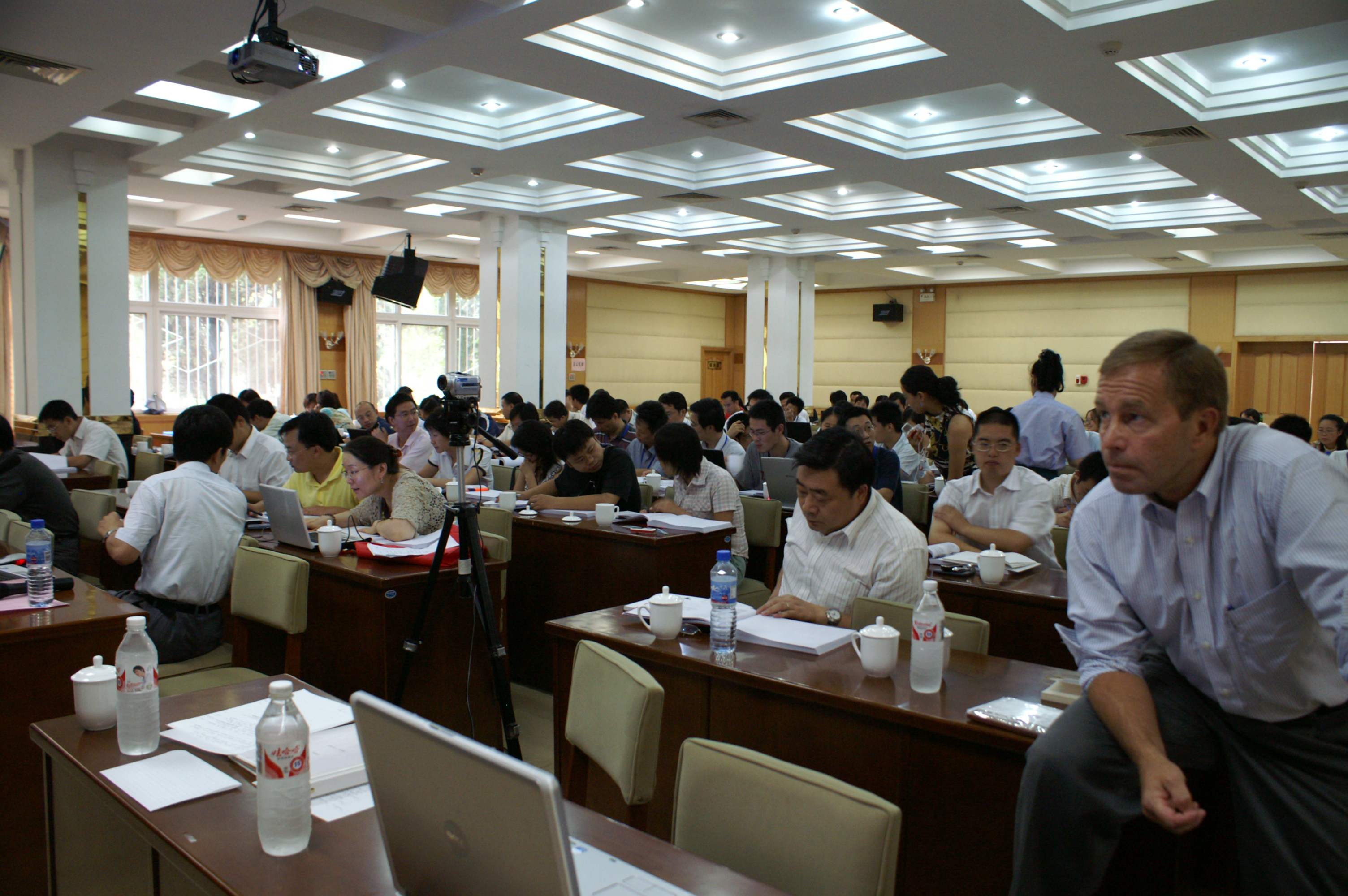 Training in China for the AP1000 reactor